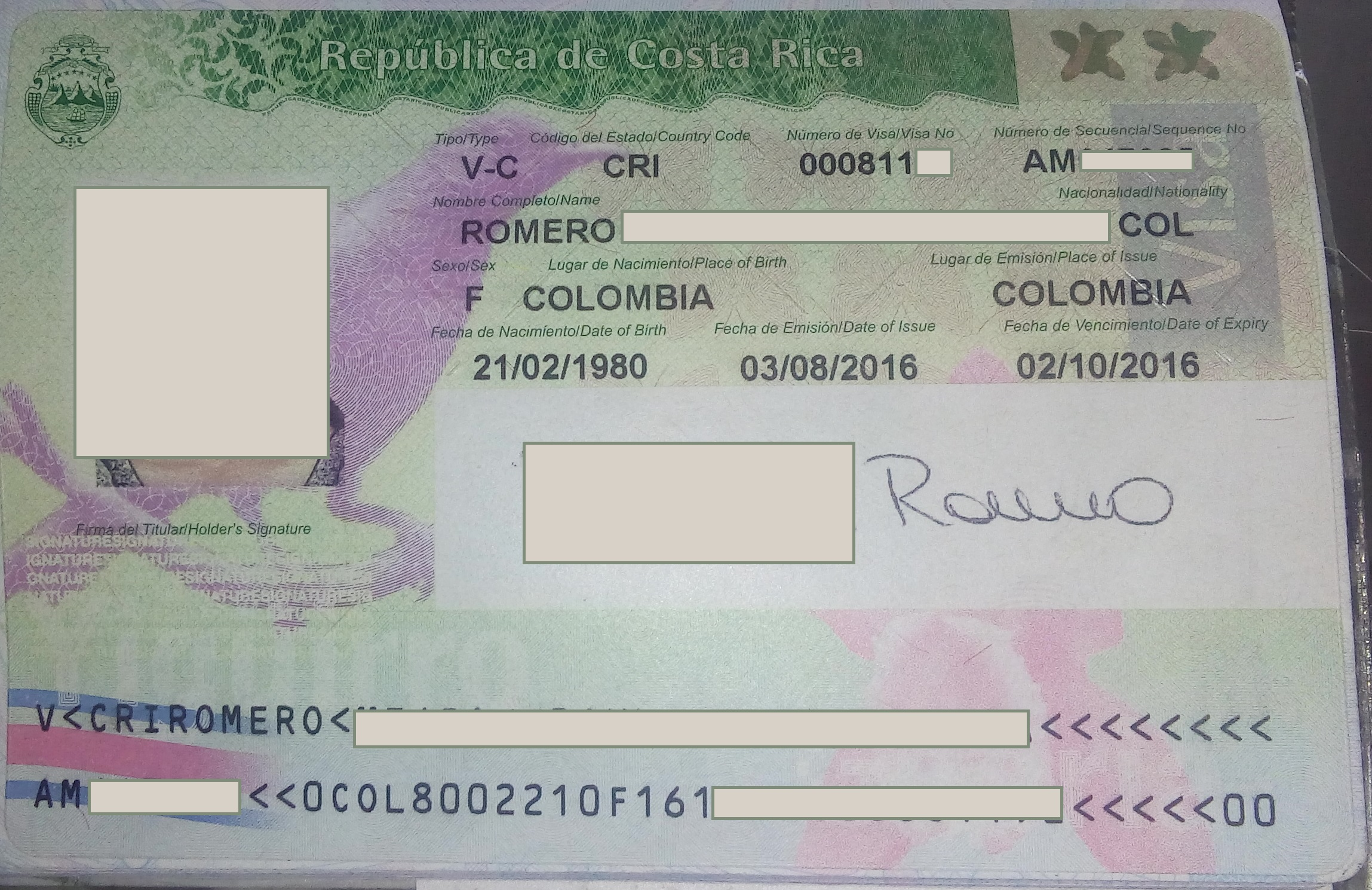 Costa Rica tourist visa for a citizen of Colombia